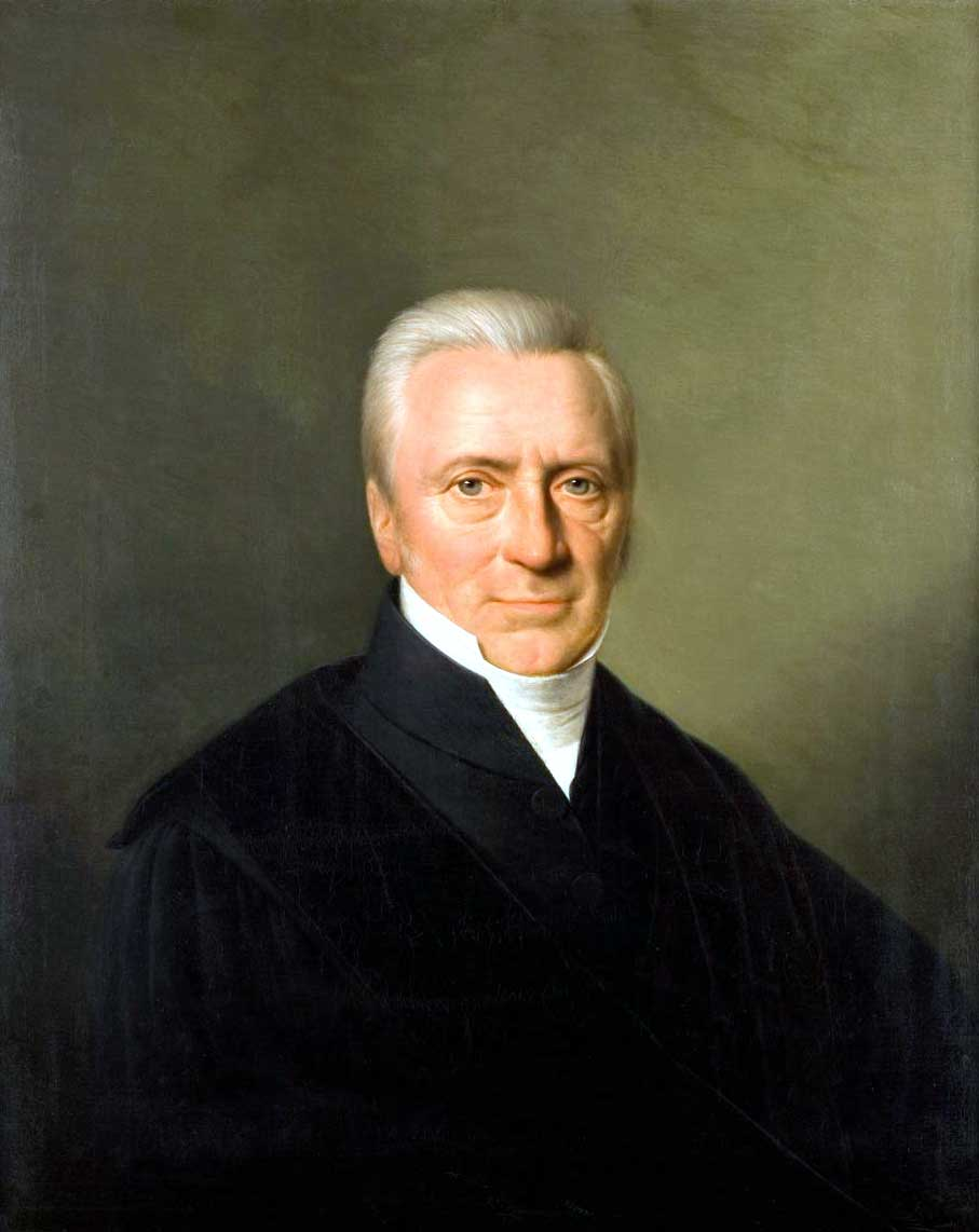 Michael Jacobus Macquelijn (1771-1852) Dutch physician